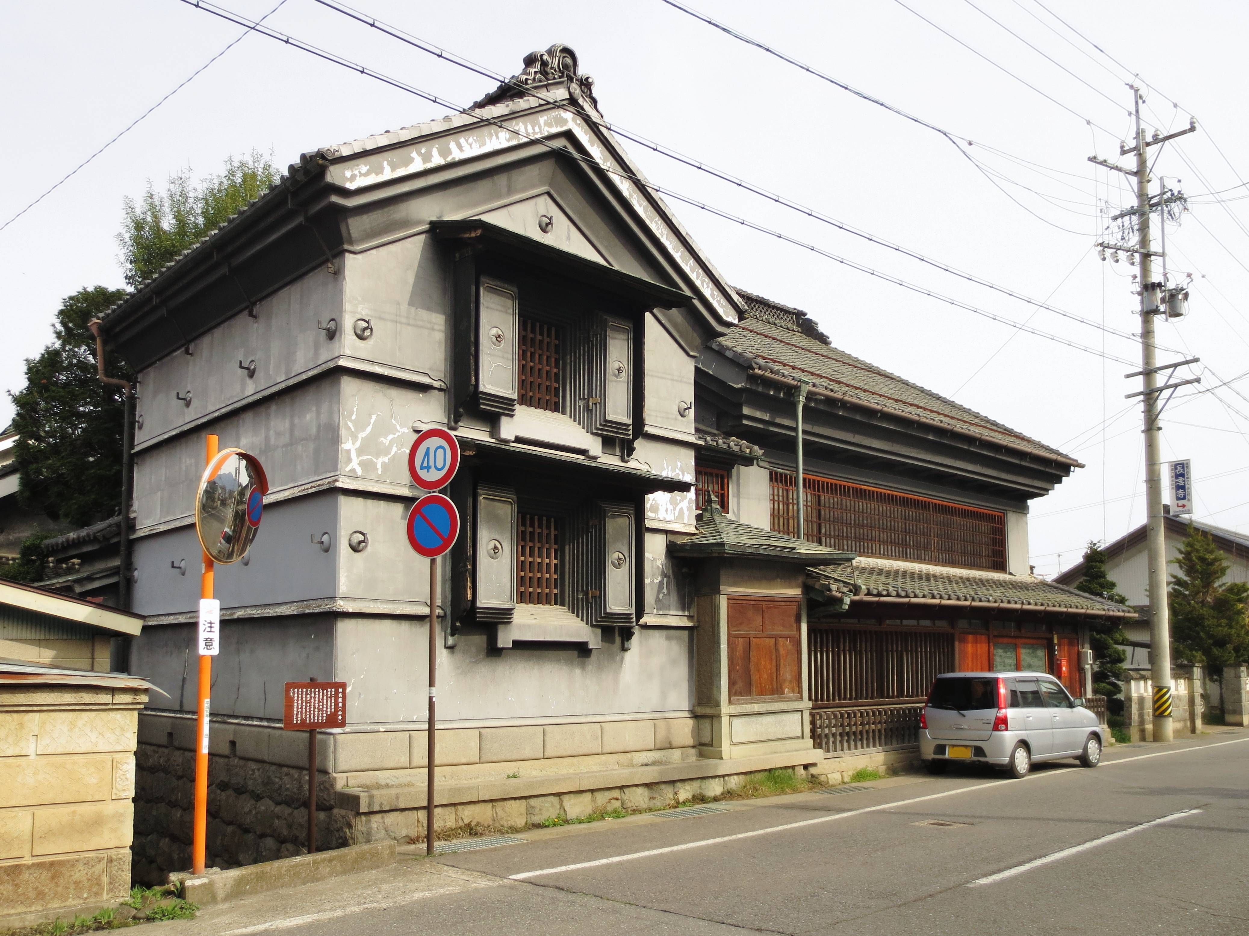 Inariyama-juku kimono shop.